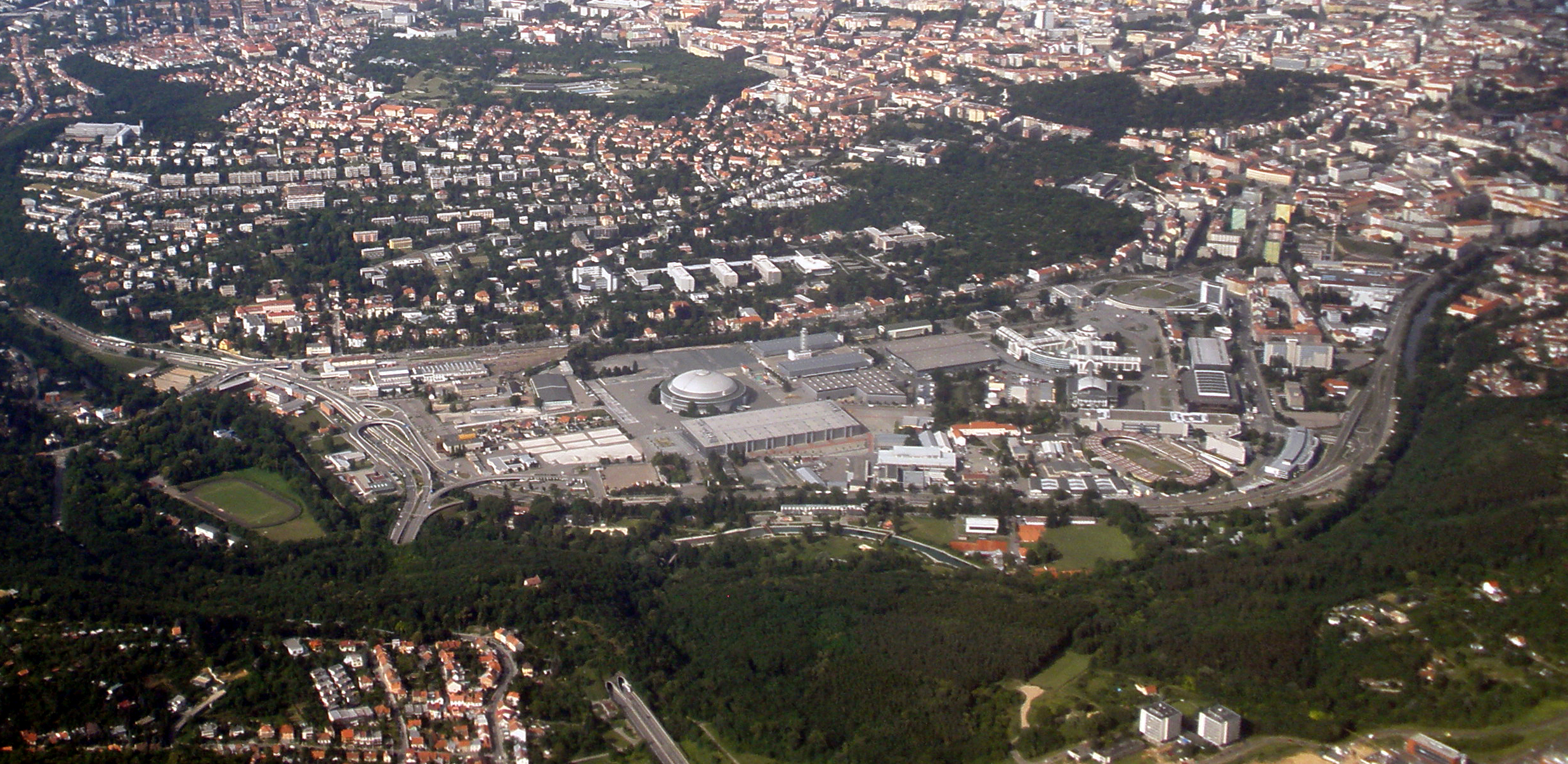 The Brno Exhibition Grounds